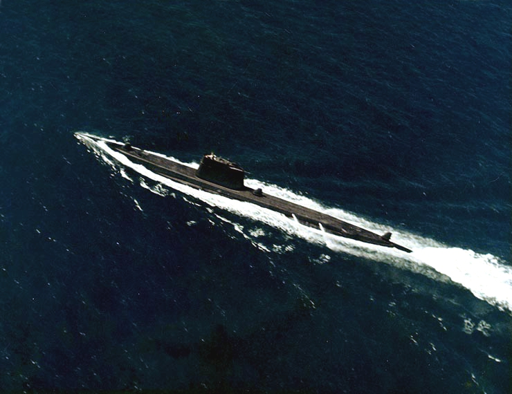 The U.S. Navy submarine USS Volador (SS-490) underway off Guam (USA), circa the middle or later 1960s.